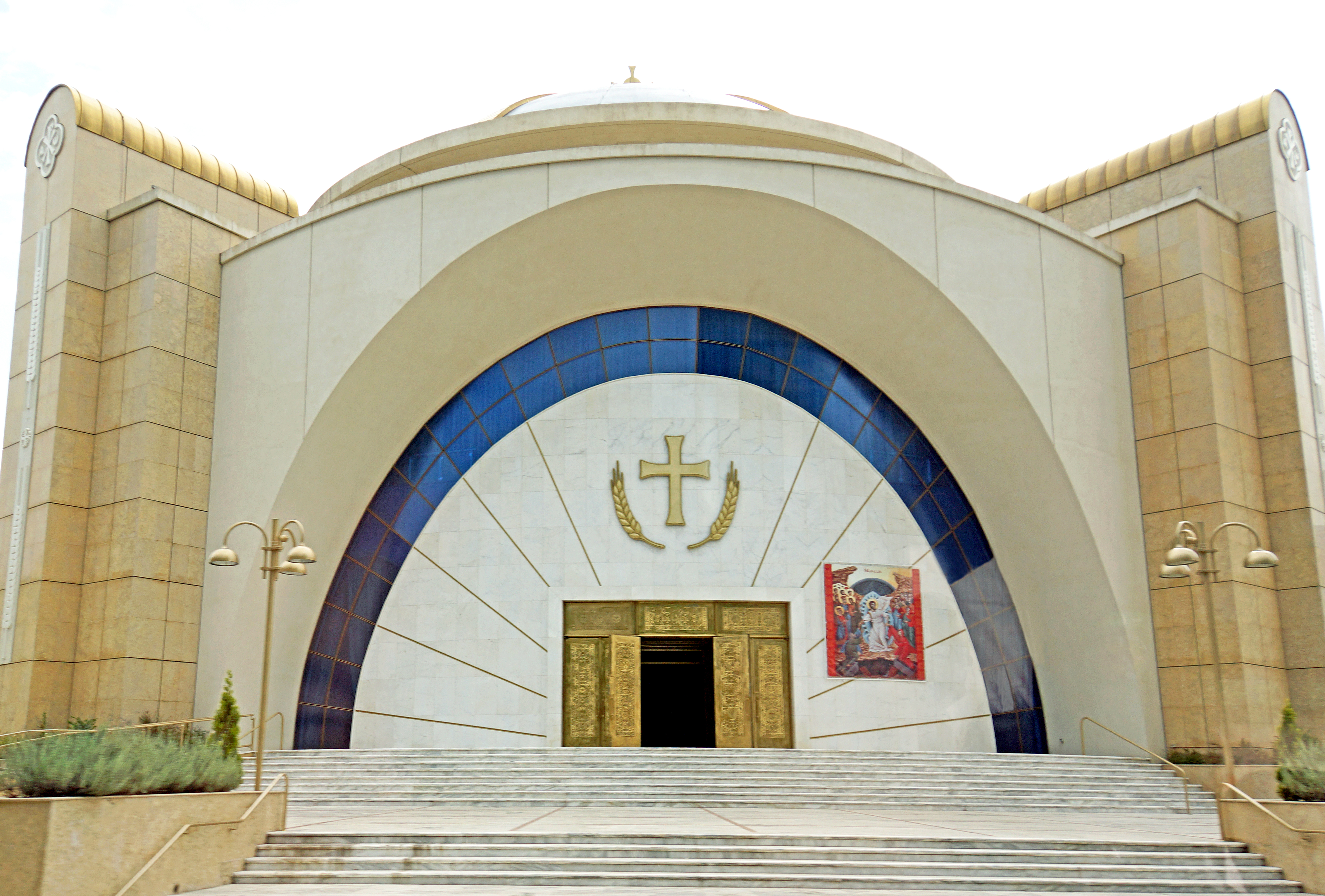 The Resurrection of Christ Orthodox Cathedral of Tirana (Orthodox Church of the Holy Evangelist) is an Orthodox church